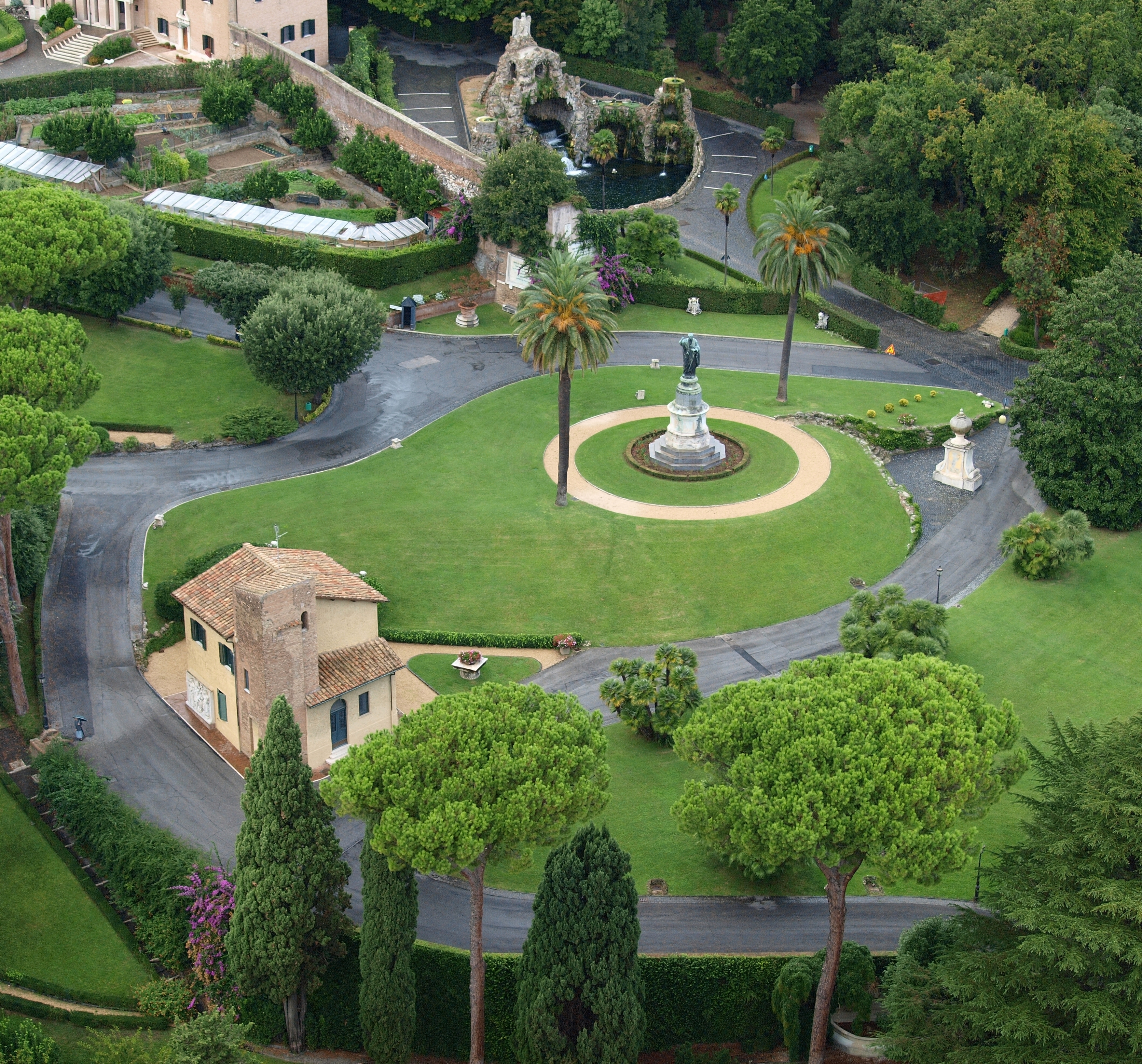 Gardens in the Vatican City